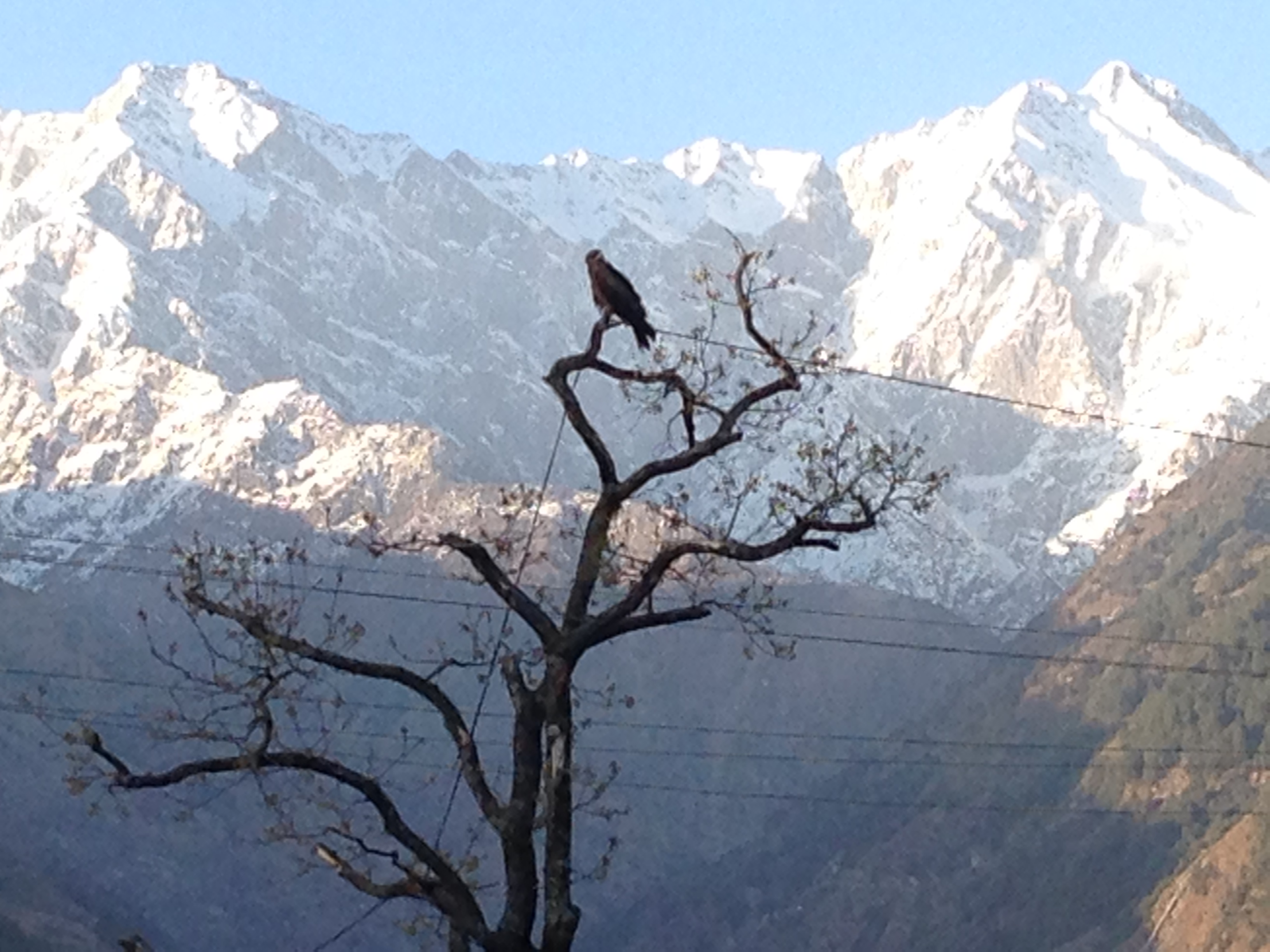 Picture of Palampur town.